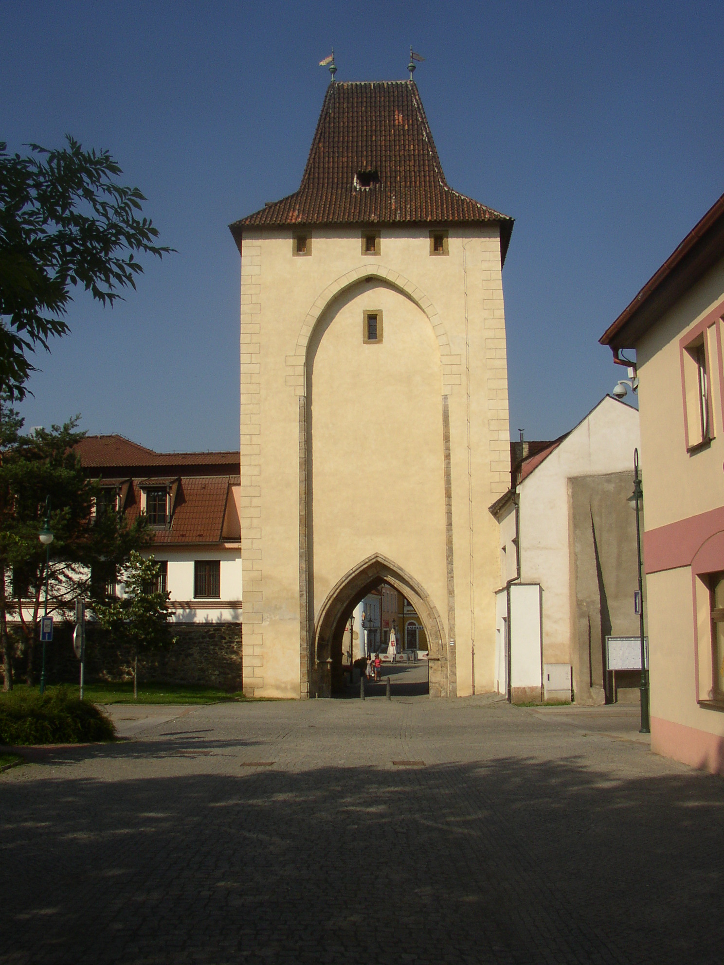 The Prague Gate in Beroun, Czech Republic as seen from east (outer side).